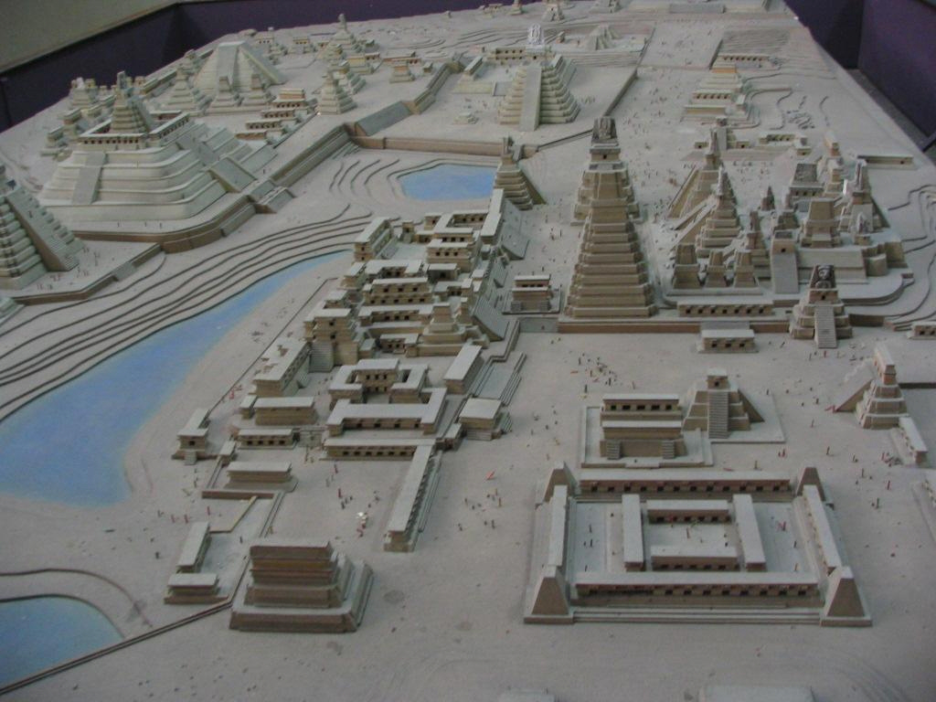 Reconstruction of Tikal, 8th century; Guatemala, Museo Nacional de Arqueología y Ethnología